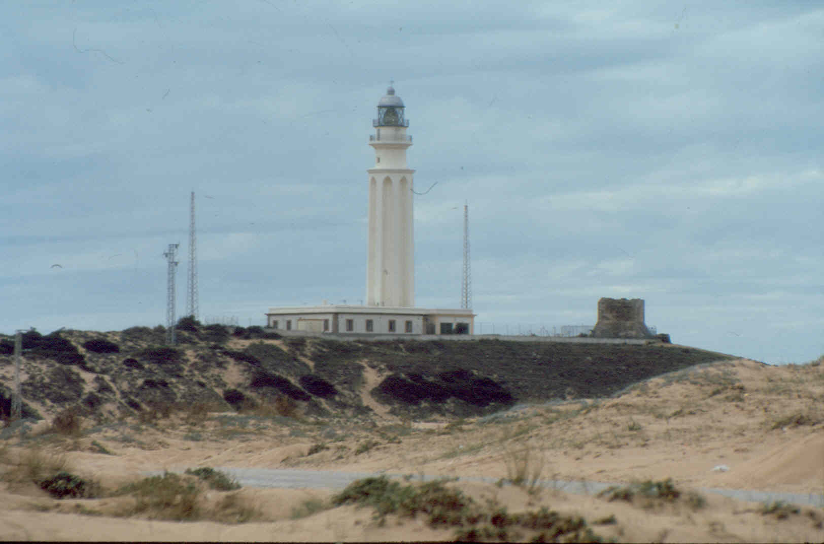 Cape Trafalgar lighthouse